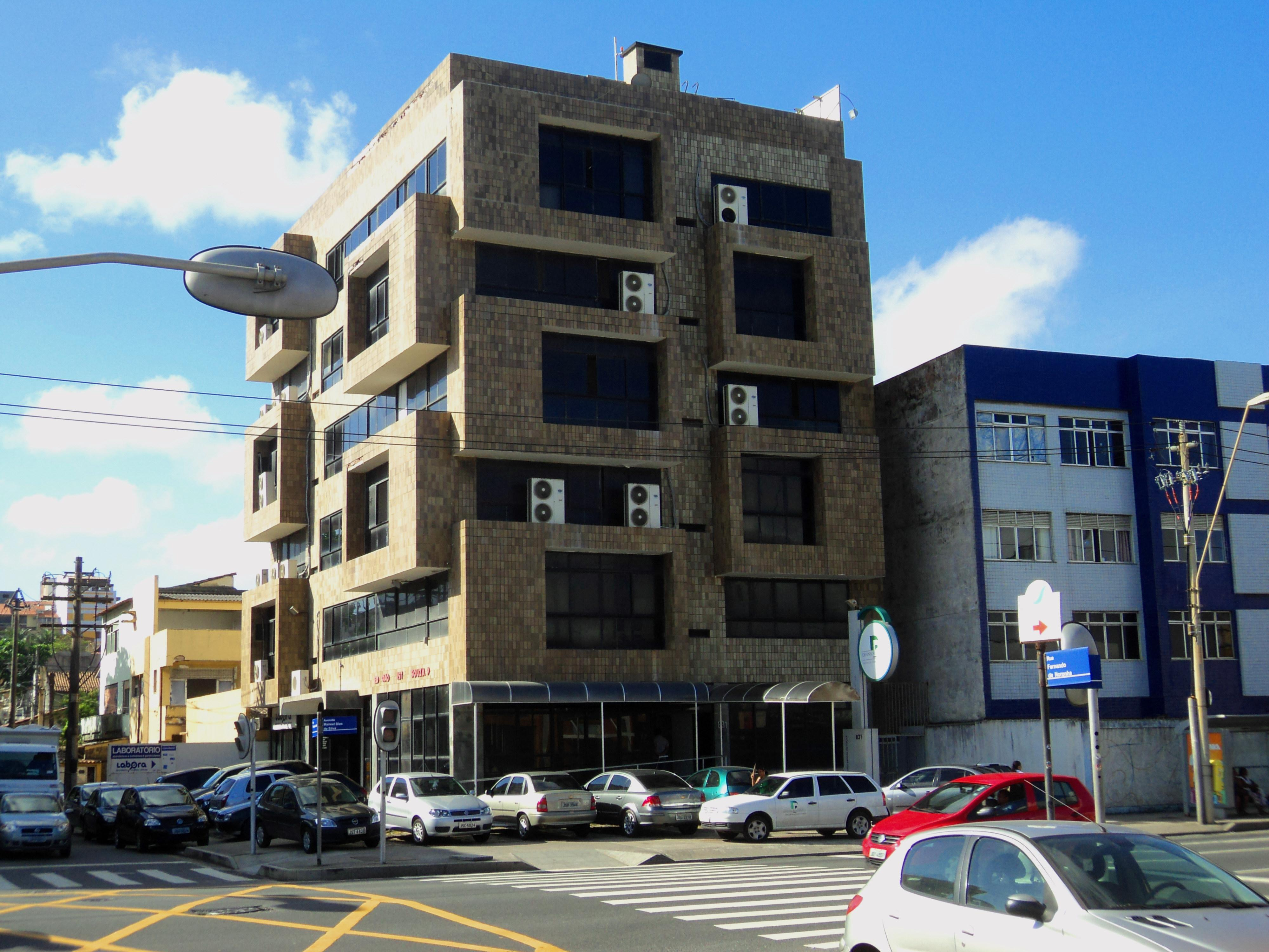 A Public Defender in Pituba. Salvador, Brazil.